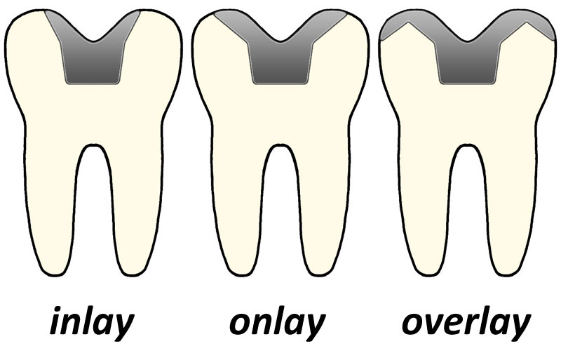 Inlay, onlay, overlay cross section